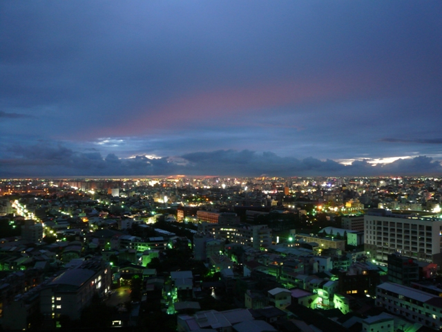 Birdview of Chiayi City. 中文（台灣）: 嘉義市區夜景瞭望。